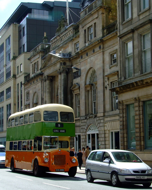 Old Glasgow bus, Data from Geograph: Description: On Glassford Street. See another one nearby on the same day here 2535785. ICBM: 55.859312651606, -4.2488924794648 Location: (about 1 km from) near to Glasgow, Great Britain.